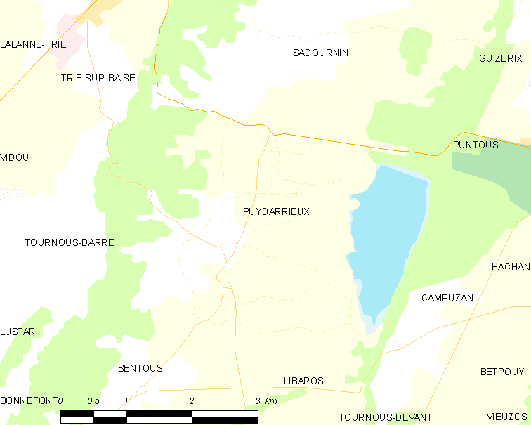 Map of French municipality